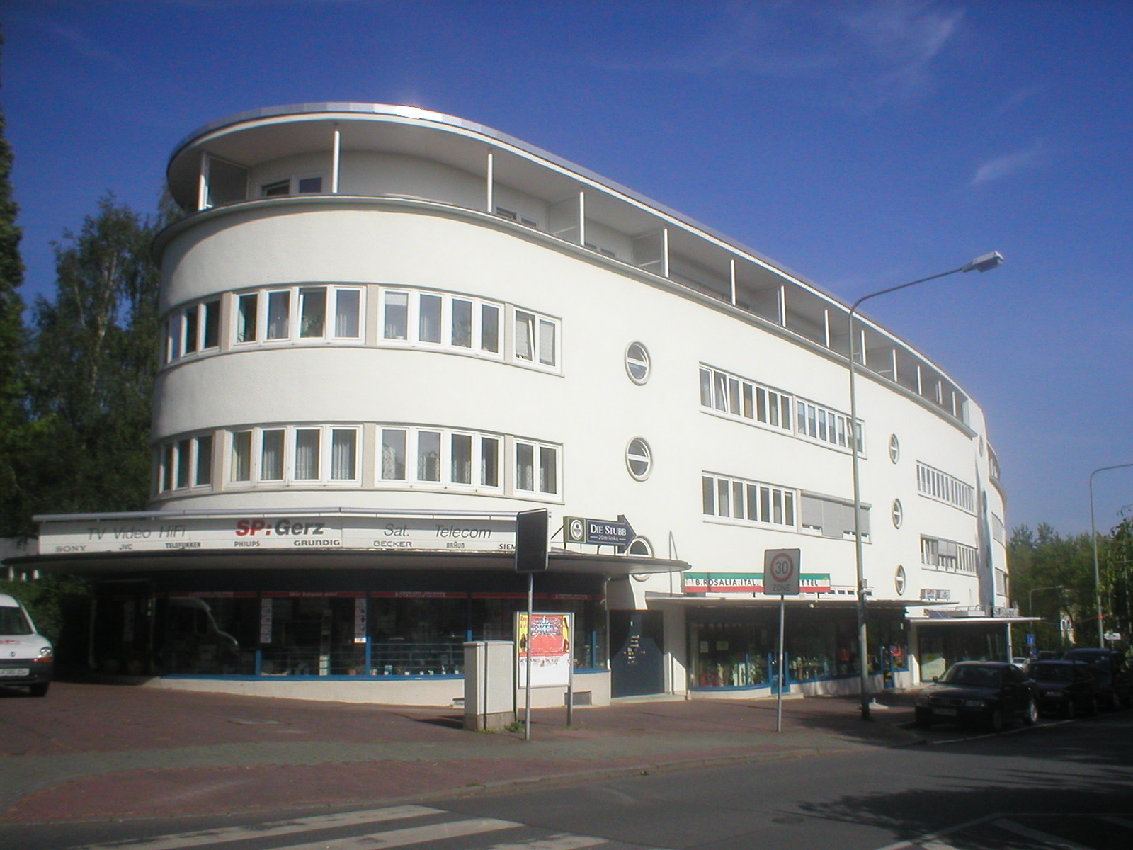 Building in Römerstadt